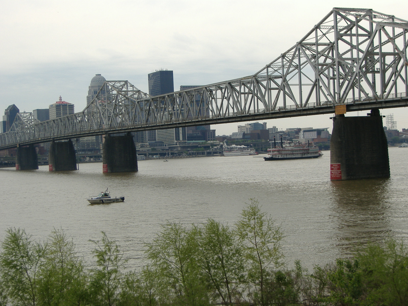 Competitors of the 2007 Great Steamboat Race arrive at the starting line.